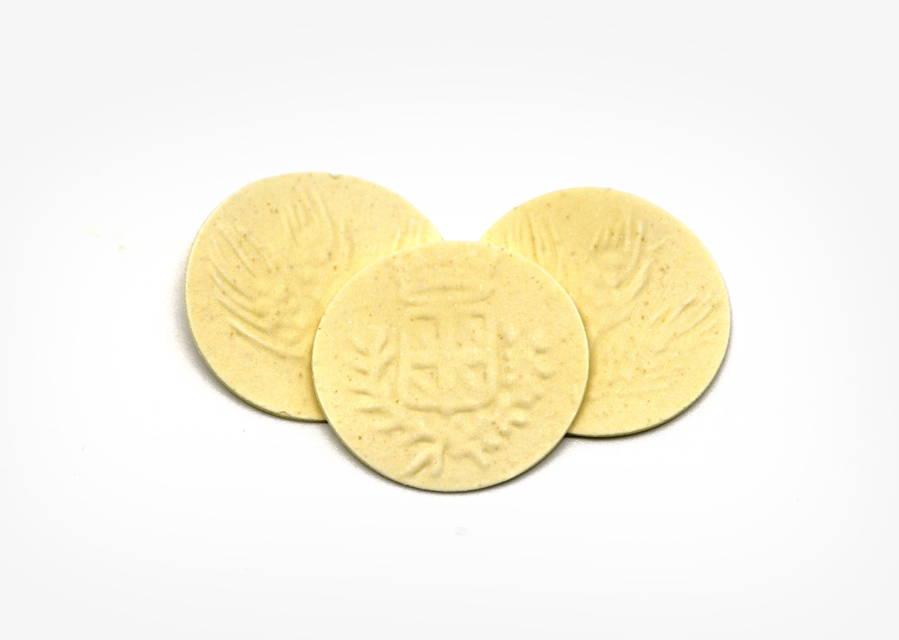 closeup on croxetti pasta